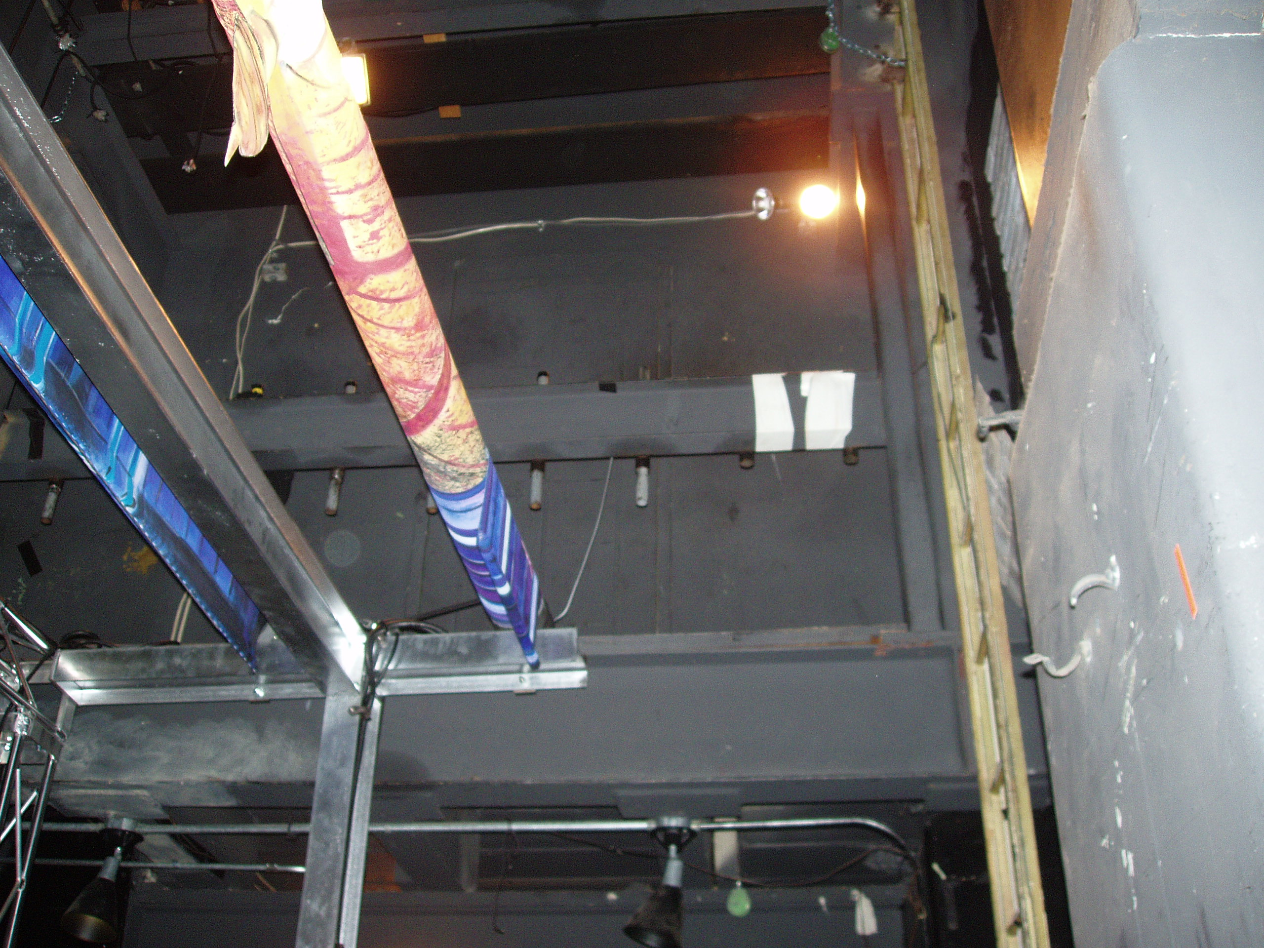 Fixed pinrail. Also in this picture are two roll drops. Taken by User:Lekogm November 27th, 2004